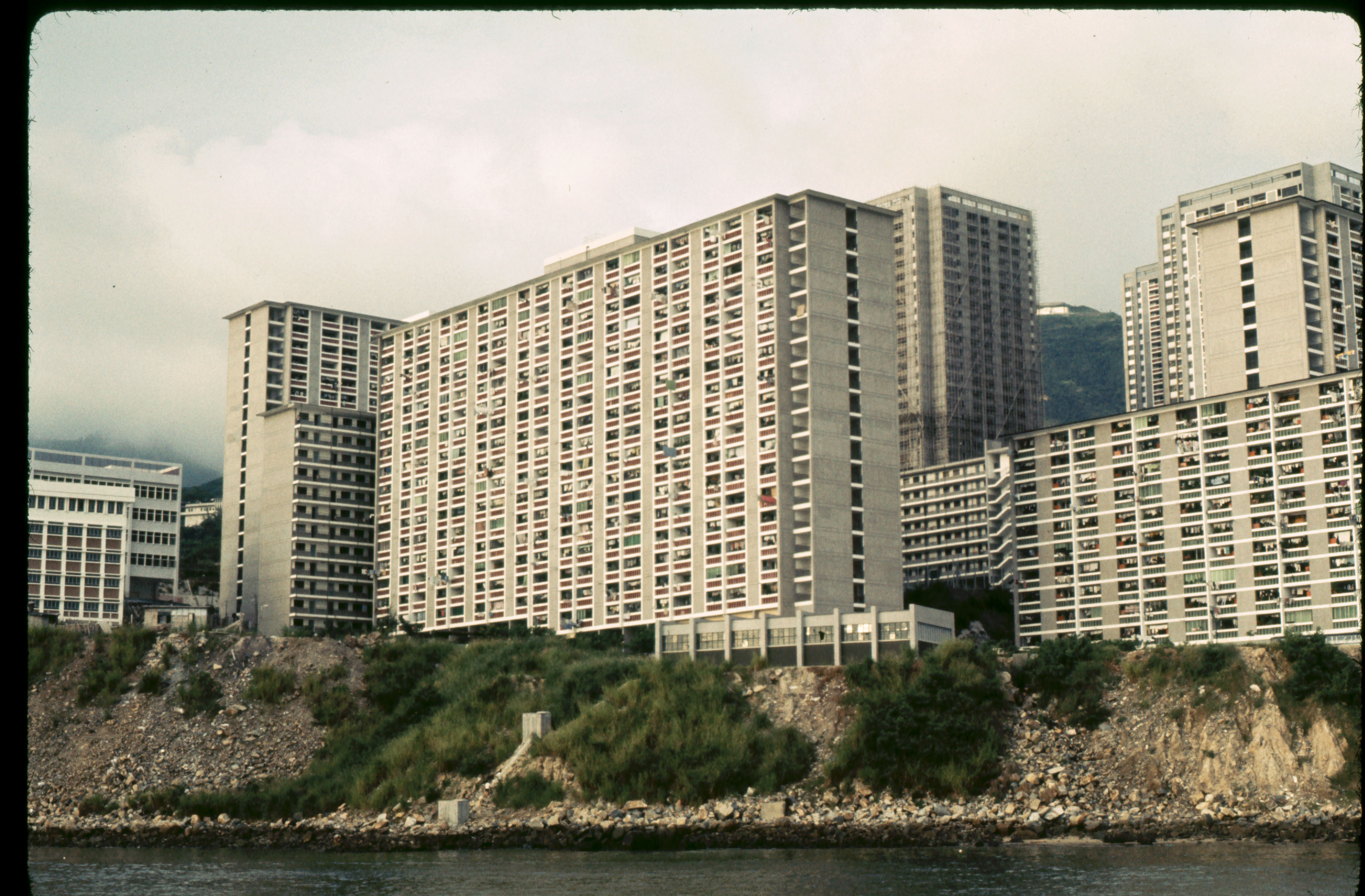 Large apartment buildings in the city; Hong Kong.